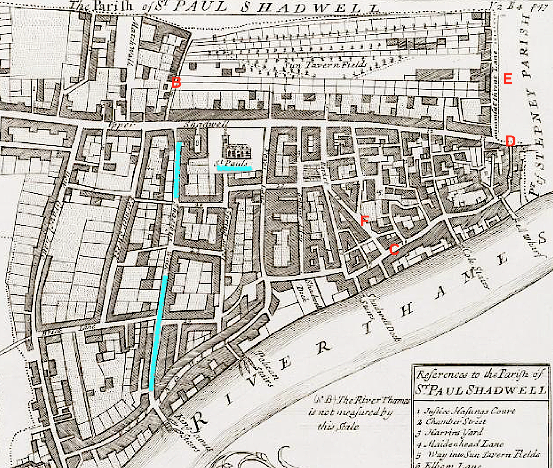 The hamlet of Shadwell: annotated version of Strype's map (1720) in v2 B4 p47.